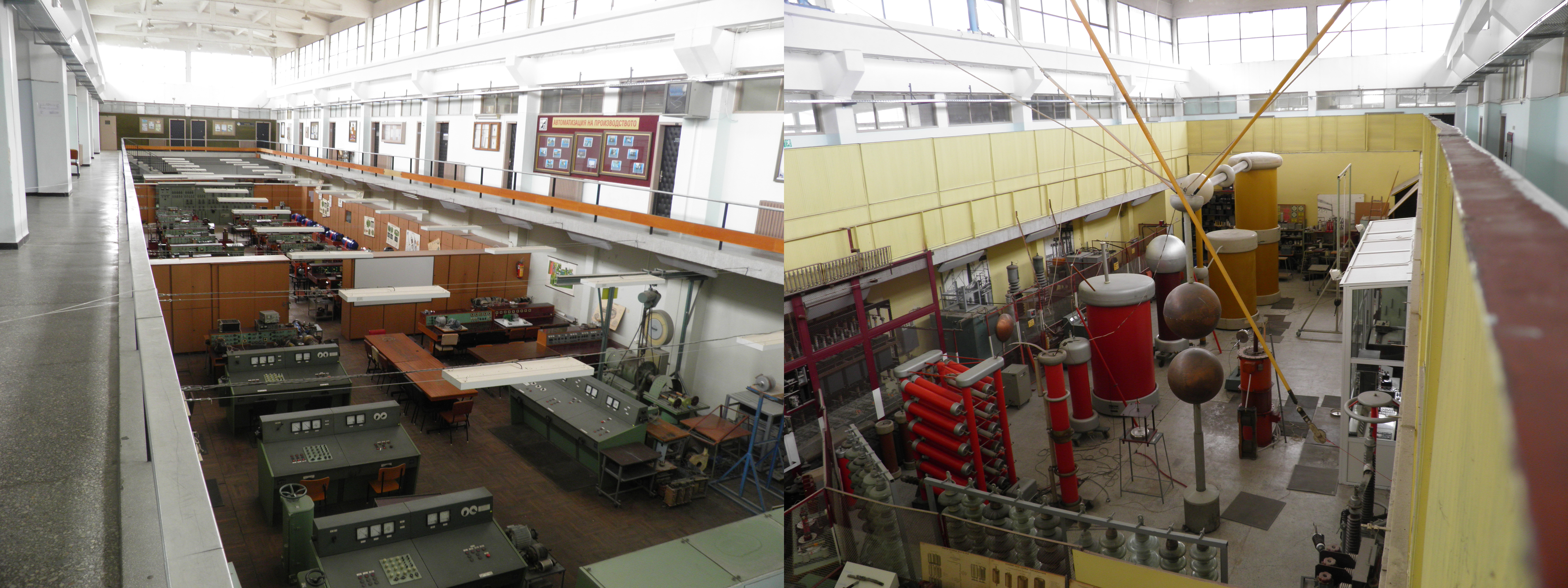 Laboratories in Electrical faculty,Varna